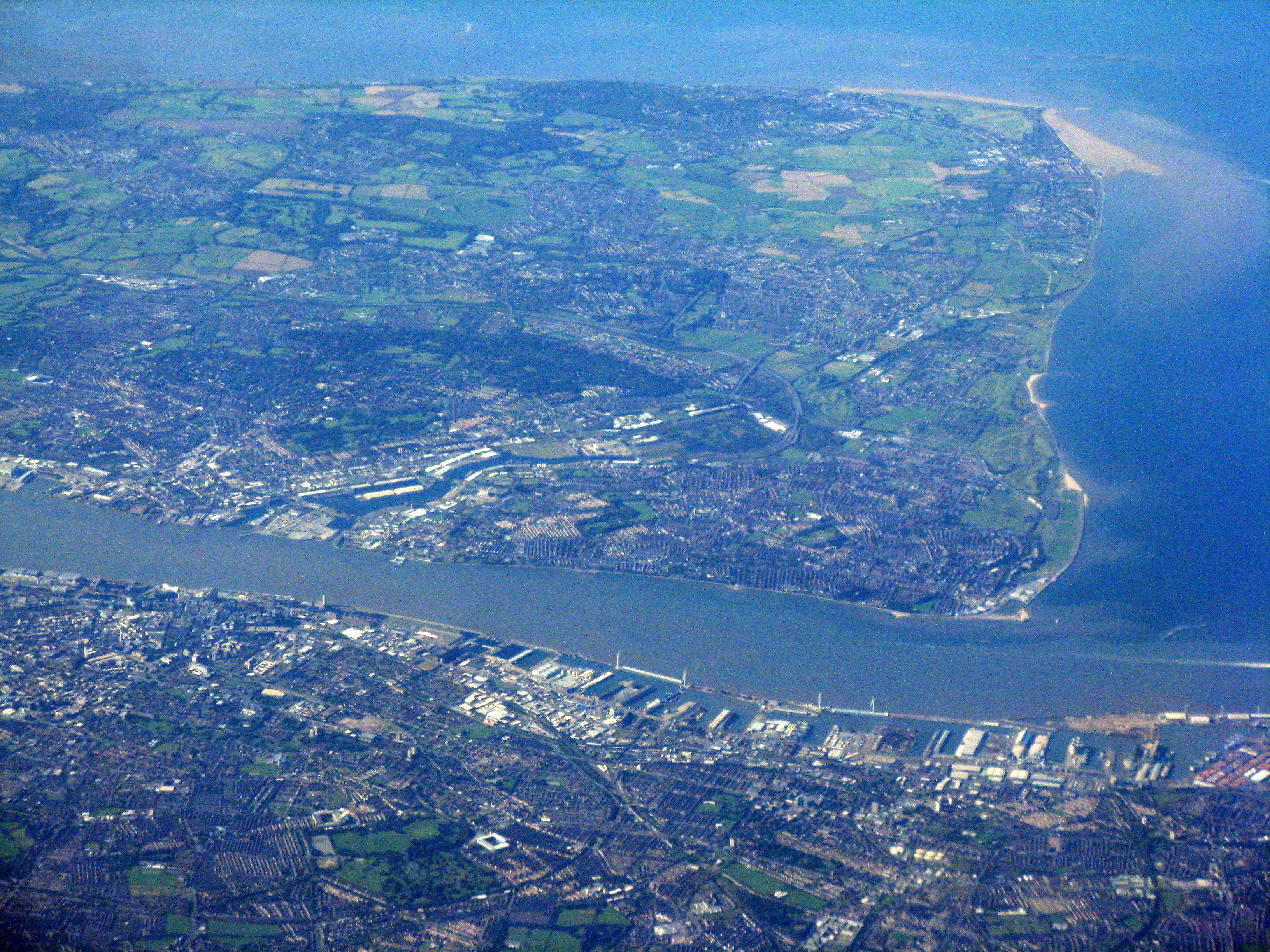 Liverpool Docks and the Wirral